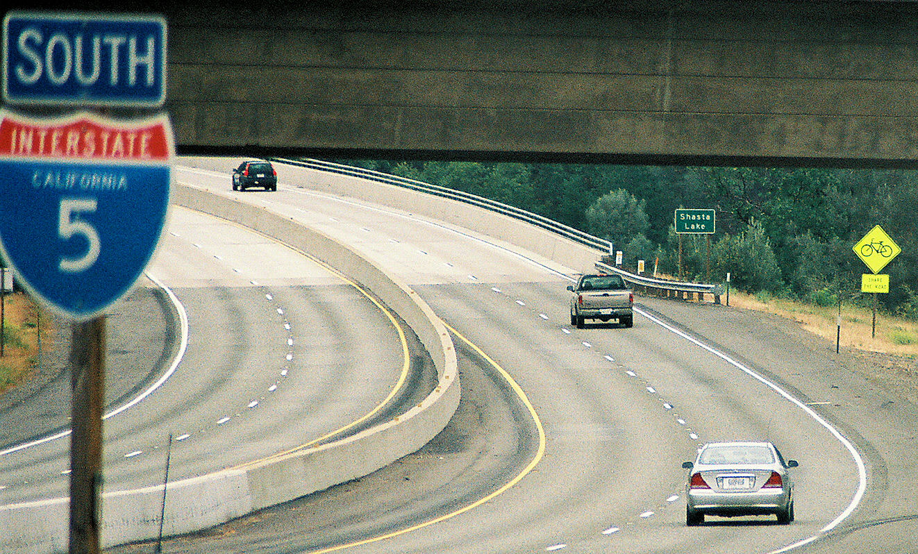 The shoulder goes away on the I-5 bridge over Lake Shasta in northern California. Bicycles are permitted on portions of Interstate 5 in this region. In general, cyclists are allowed on California Interstates when no alternative route exists.